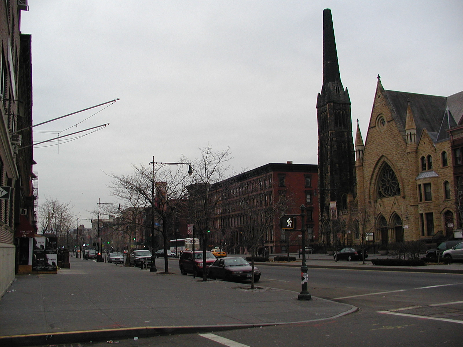 Lenox Avenue (Manhattan) looking Southwest, seen from the Northeast corner of 124th Street. I (Petri Krohn) took this picture in March 2005. Category:Photographs by User:Petri Krohn